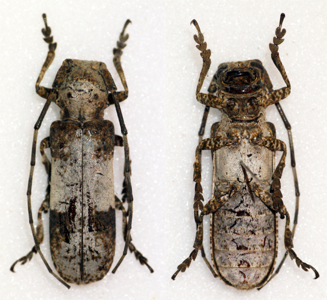 Thomson,1857 Sex: Female Data: 05-2013 - Sefula Forest - Western Zambia Size: ?